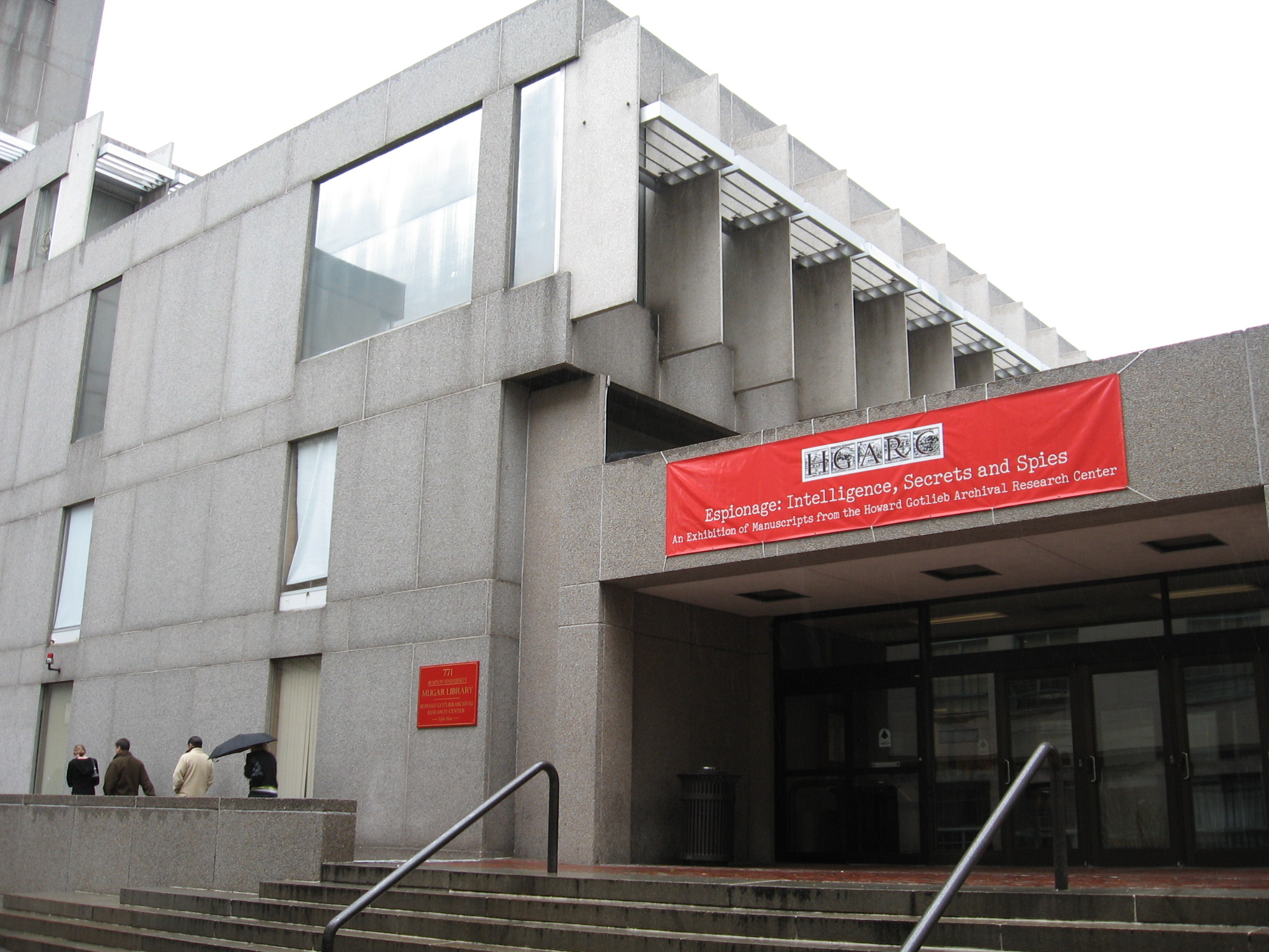 The exterior of Mugar Memorial Library at Boston University.